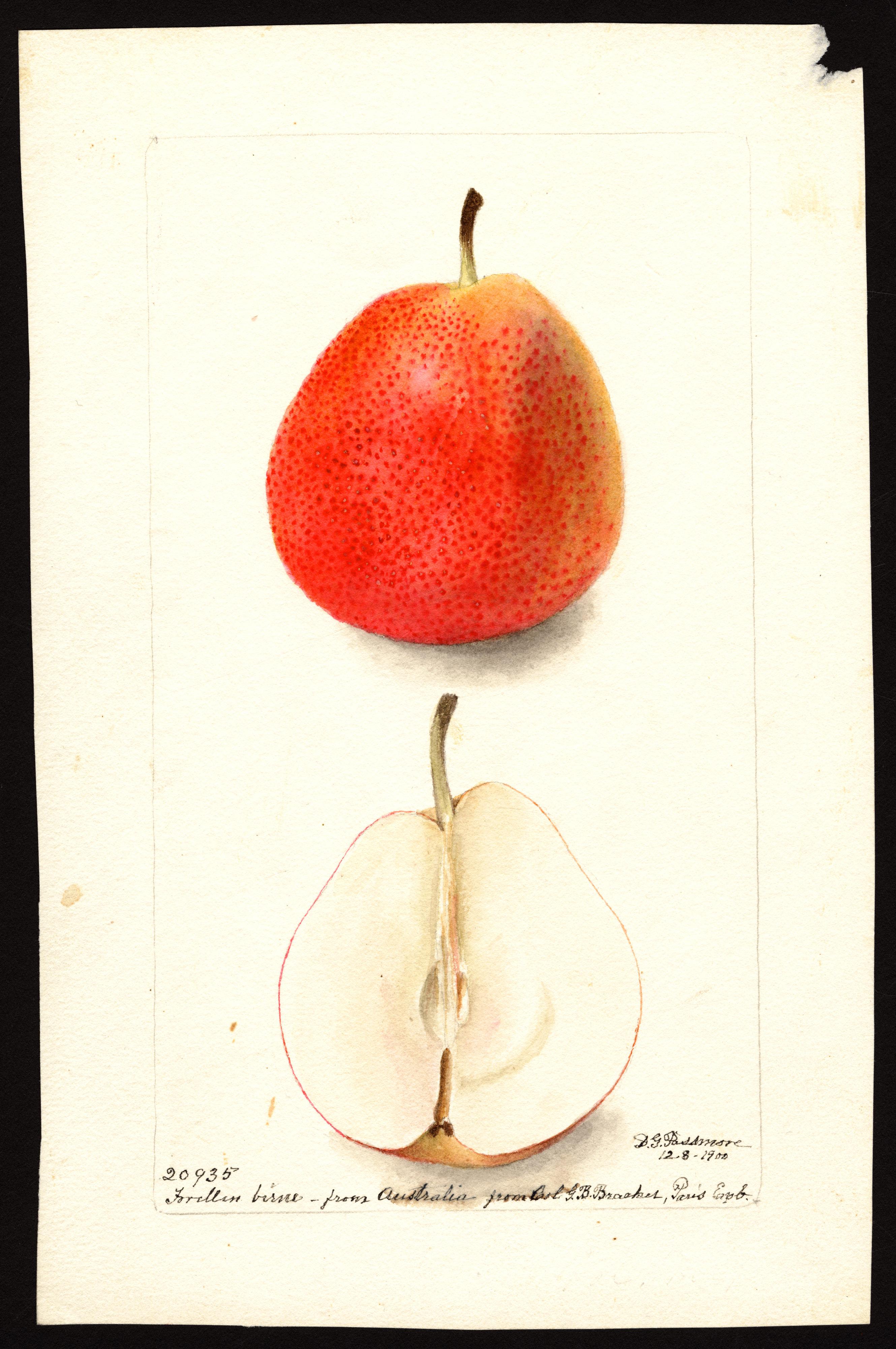 Image of the Forella Birne variety of pears (scientific name: Pyrus communis), with this specimen originating in Paris, France. Source: U.S. Department of Agriculture Pomological Watercolor Collection. Rare and Special Collections, National Agricultural Library, Beltsville, MD 20705.